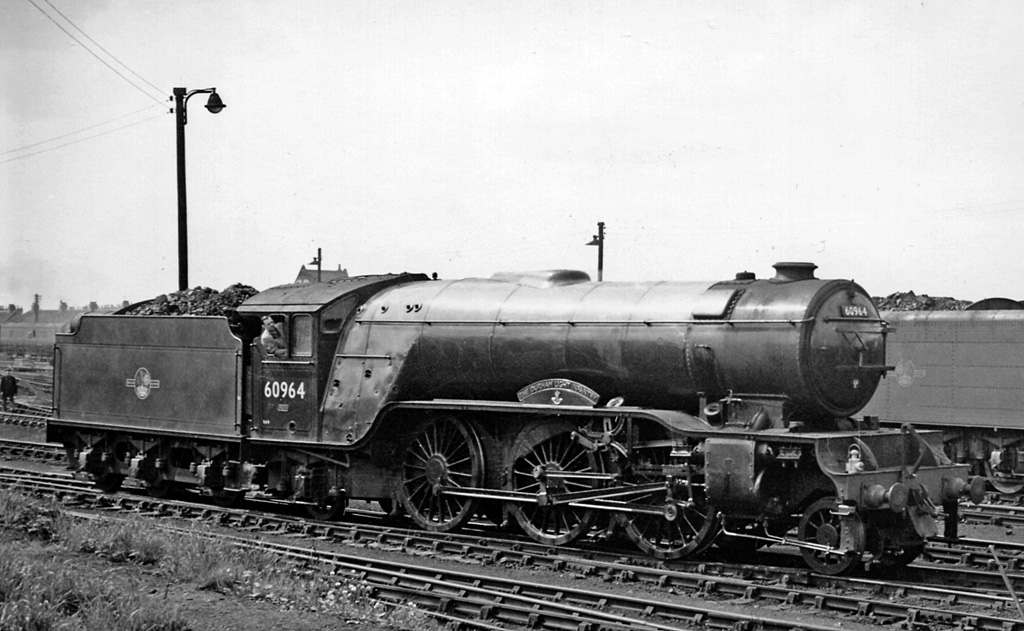 A named Gresley V2 2-6-2 in York Locomotive Yard. View northward, from Leeman Road as it passed beside the ex-North Eastern York (North) Locomotive Yard, where is situated nowadays the National Railway Museum. Few of the V2s were given names, so No. 60964 'The Durham Light Infantry' was an exception - here looking splendidly clean.